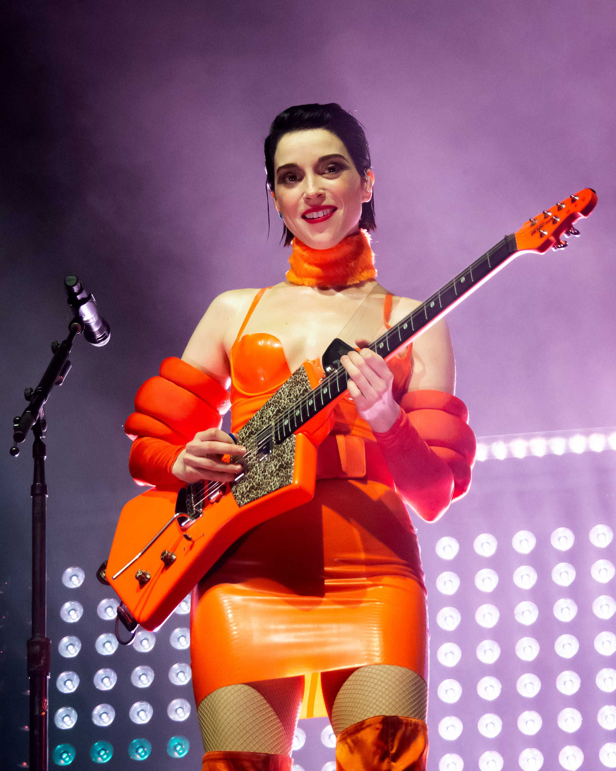 St. Vincent performing live at the Hollywood Palladium in Los Angeles, California, on Monday, October 29, 2018.